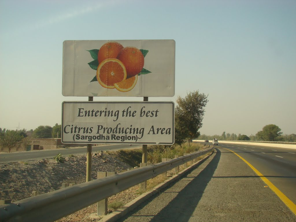 Picture of Motorway M2 at dist. Sargodha entrance